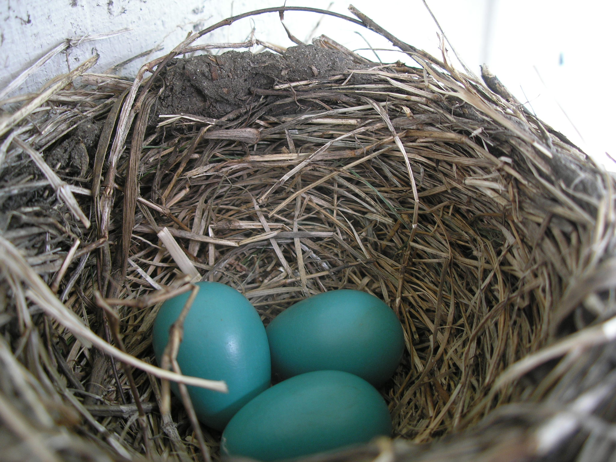 Three blue American Robin eggs in a nest. Taken in Munster, Indiana.